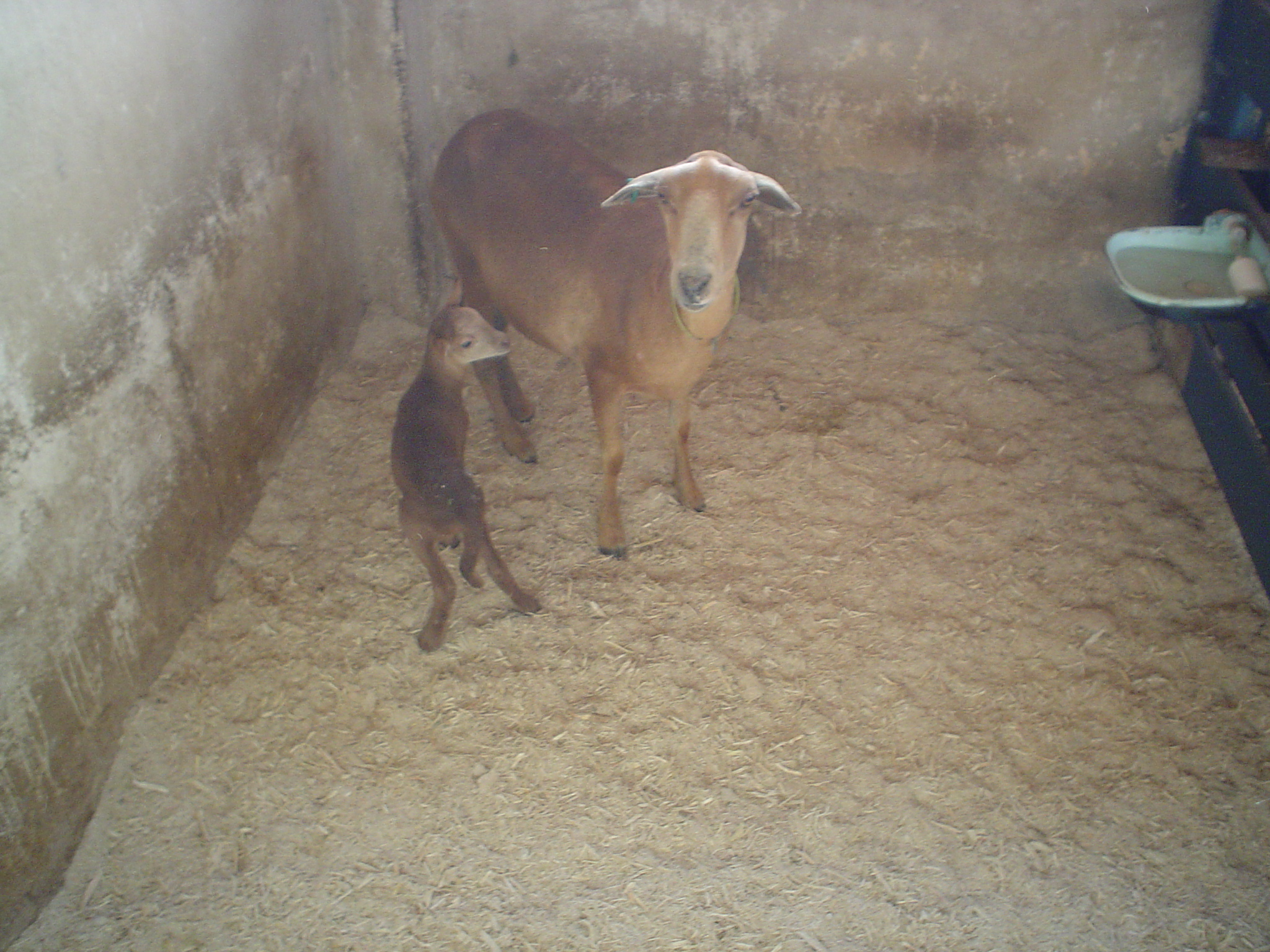 Morada Nova sheep in Brazil